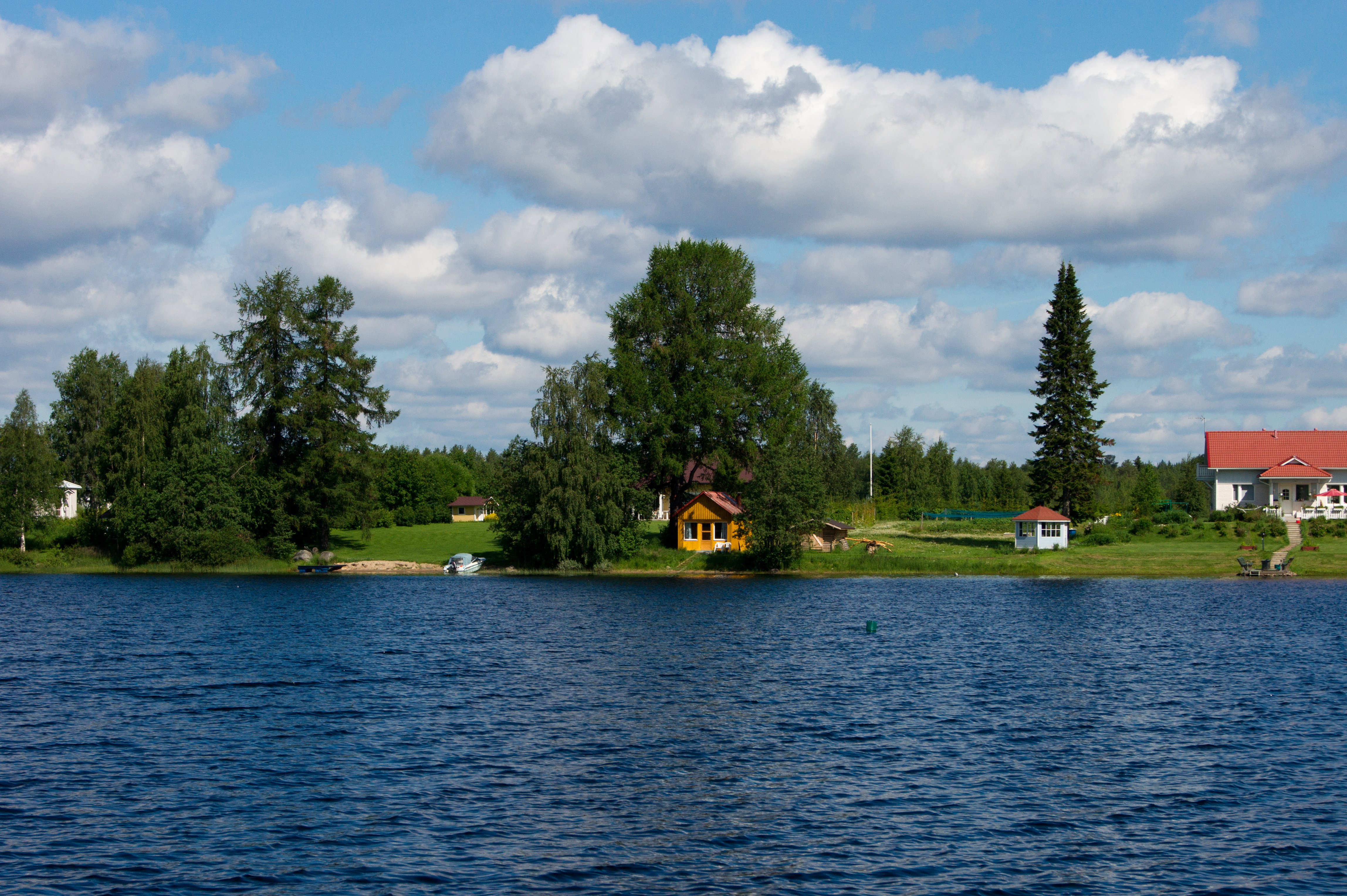 Lake Lammsajärvi in Kuhmo, Finland